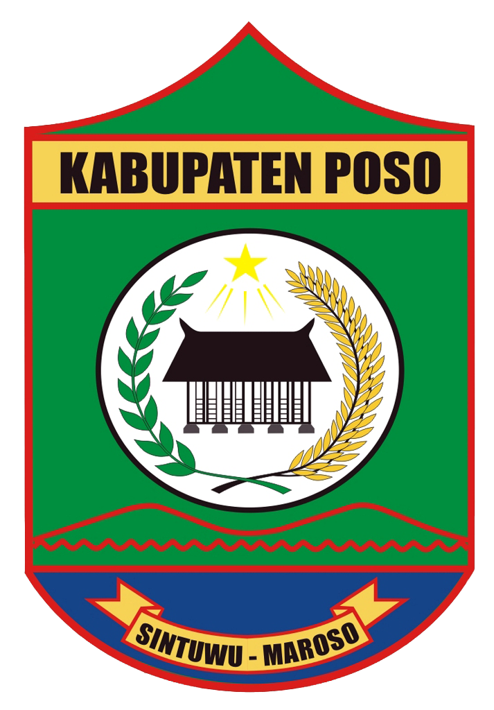 This is the seal of Poso Regency.